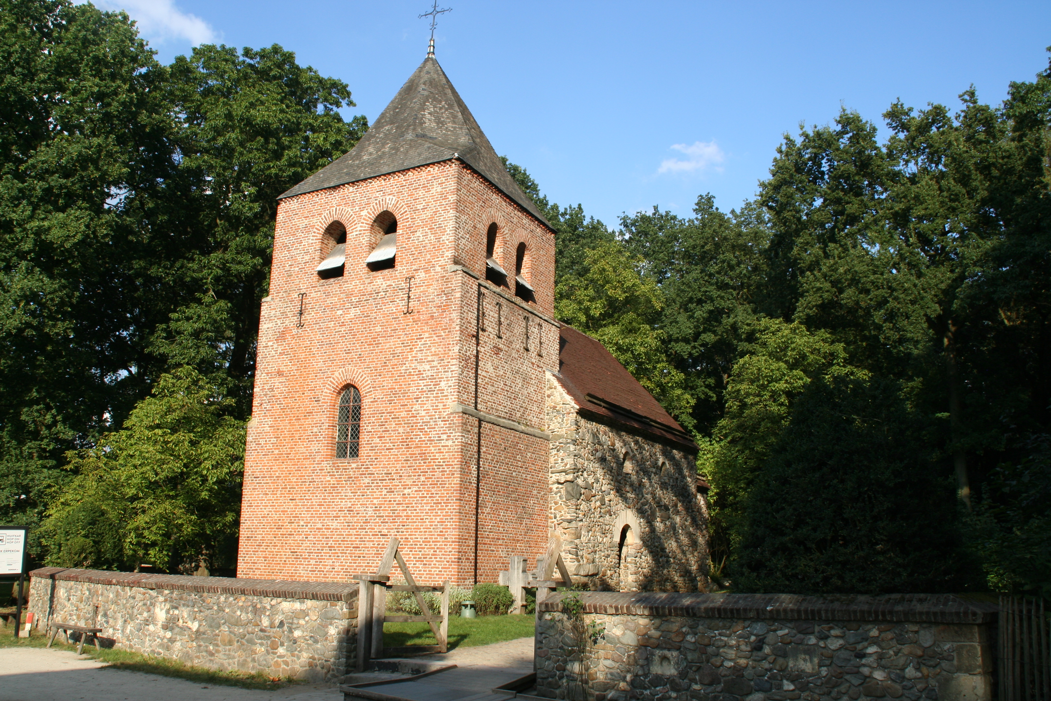 Historic Sint-Hubertuskapel from Erpekom in the Bokrijk open-air museum (11-12th century). Listed on the inventaris bouwkundig erfgoed as 80755.